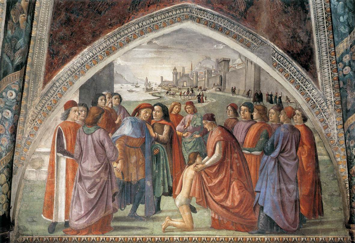 Renunciation of Worldly Goods (Cappella Sassetti, Santa Trinità, Florence)